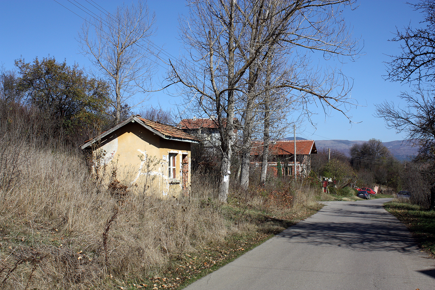 Entrance in Kalenvtsi